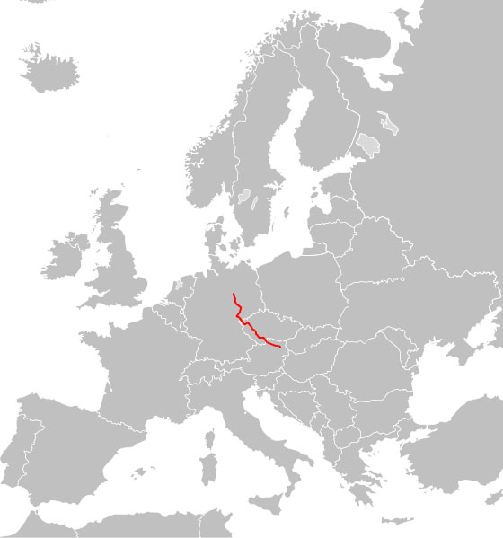 The European route 49